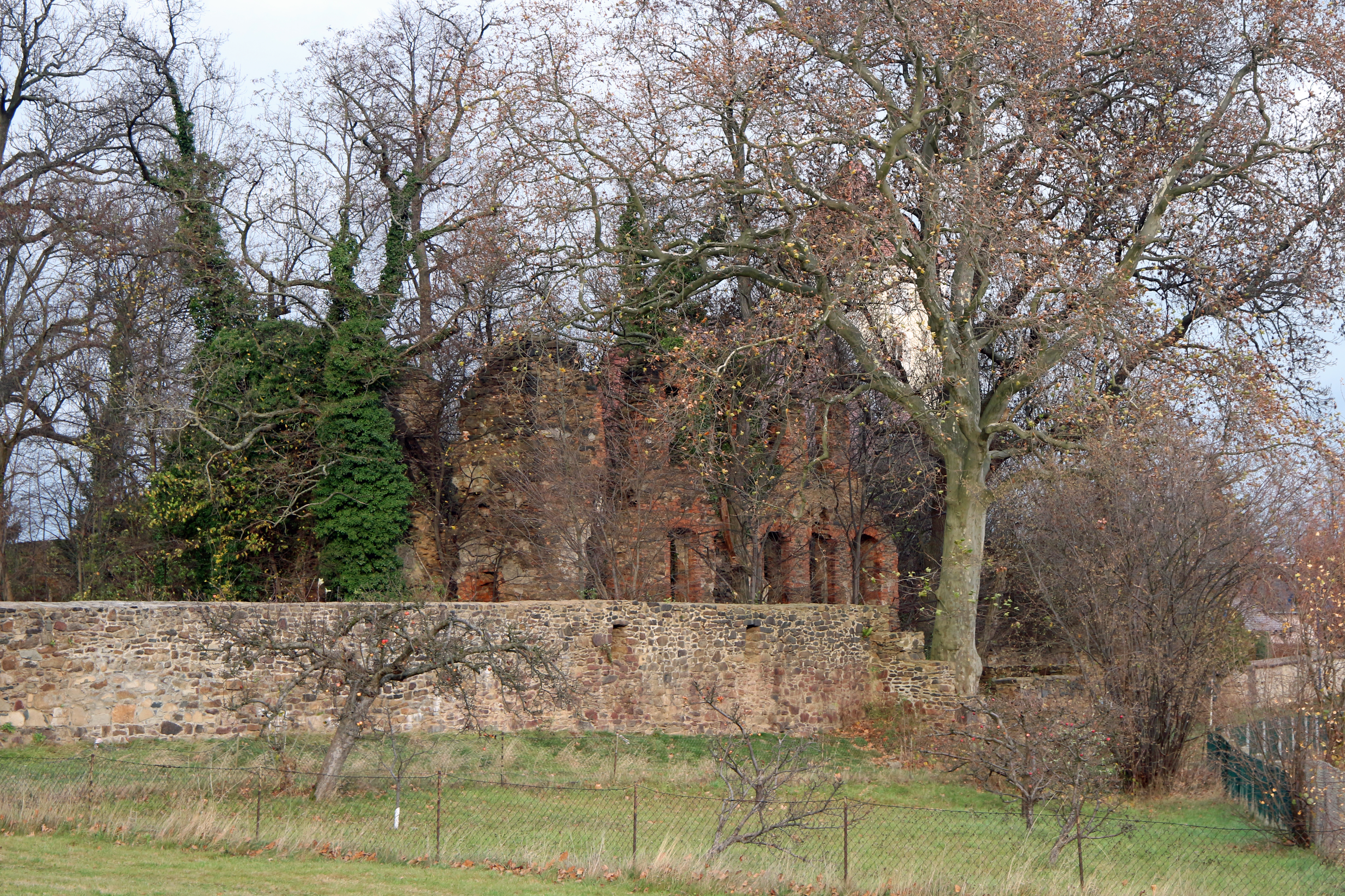 Nostitz (Weissenberg) castle remains